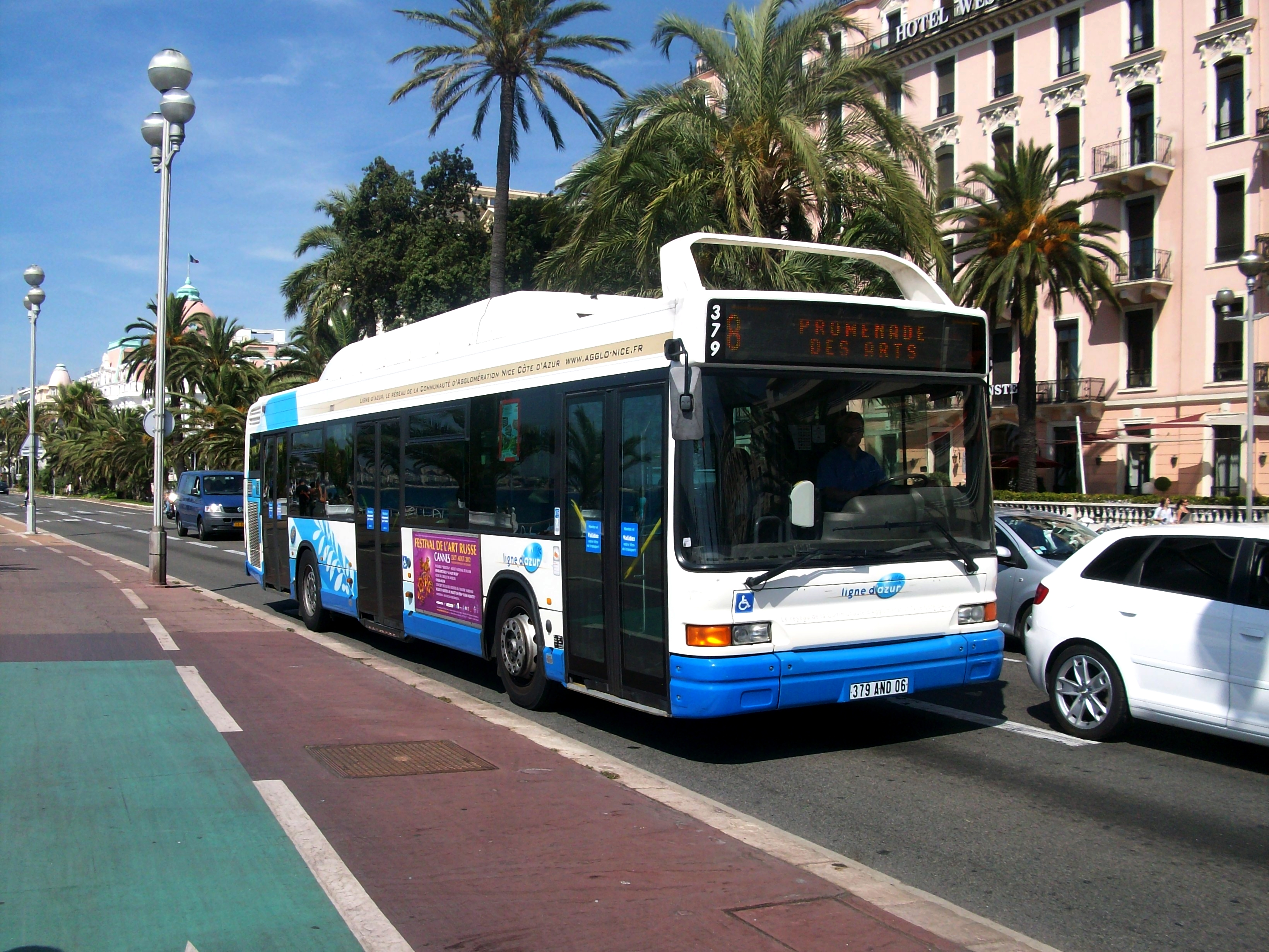 Bus Lignes d'azur Nice